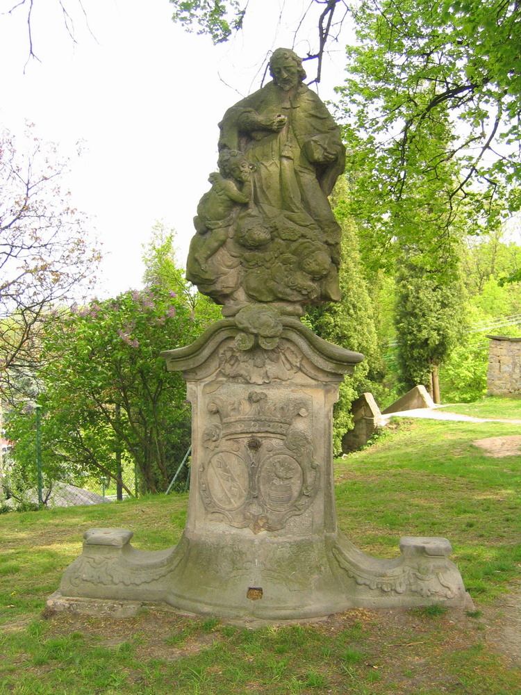 Statue of St John Nepomucene from 1760 next to church of the Trnsfiguration in Velichovky, Náchod District, Czech Republic.